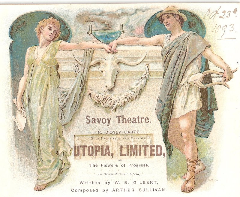 Souvenir programme from the Gilbert and Sullivan opera Utopia Limited (1893)